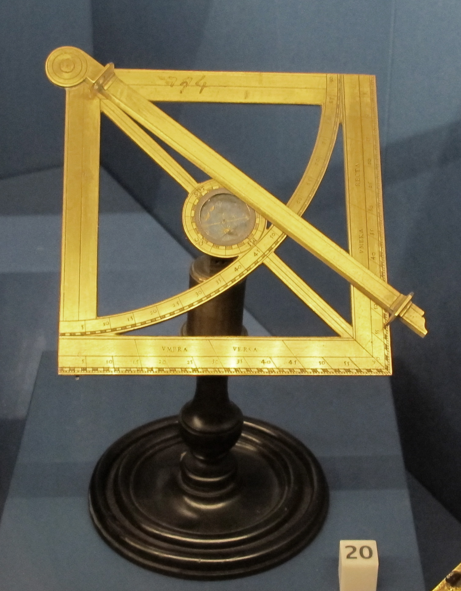 Geometrical square.